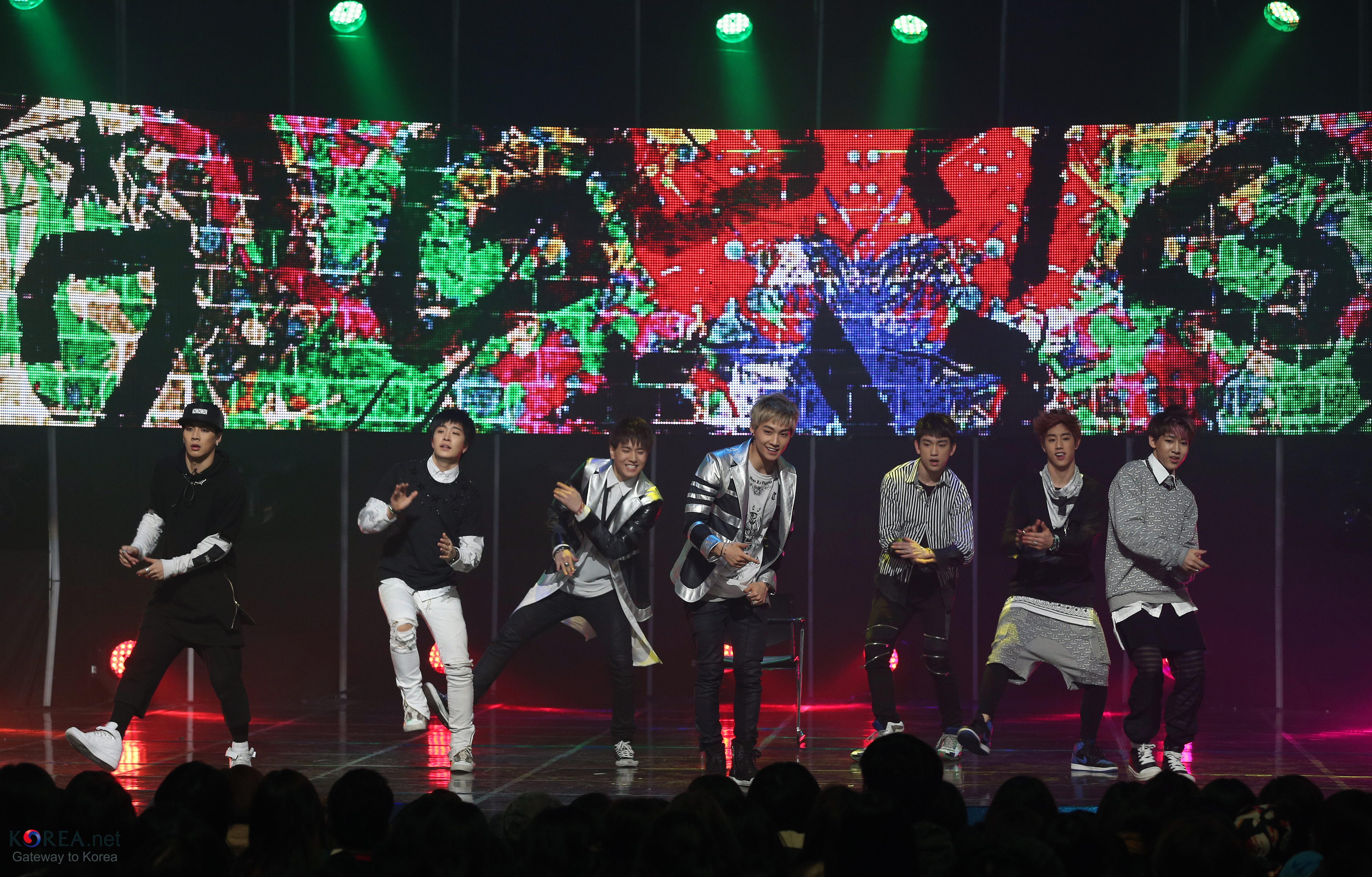 Mcountdown GOT7 JB, Jr. Mark, Jackson, Youngjae, BamBam(Kunpimook Bhuwakul), Yugyeom CJ E&M Center, Sangam-dong, Mapo-gu, Seoul 2014.03.06. Ministry of Culture, Sports and Tourism Korean Culture and Information Service ( Jeon Han 엠카운트다운 생방송 갓세븐 ‘난 니가 좋아’ JB, 마크, Jr. 잭슨, 영재, 뱀뱀, 유겸 2014-03-06 CJ E&M 센터 문화체육관광부 해외문화홍보원 코리아넷 전한